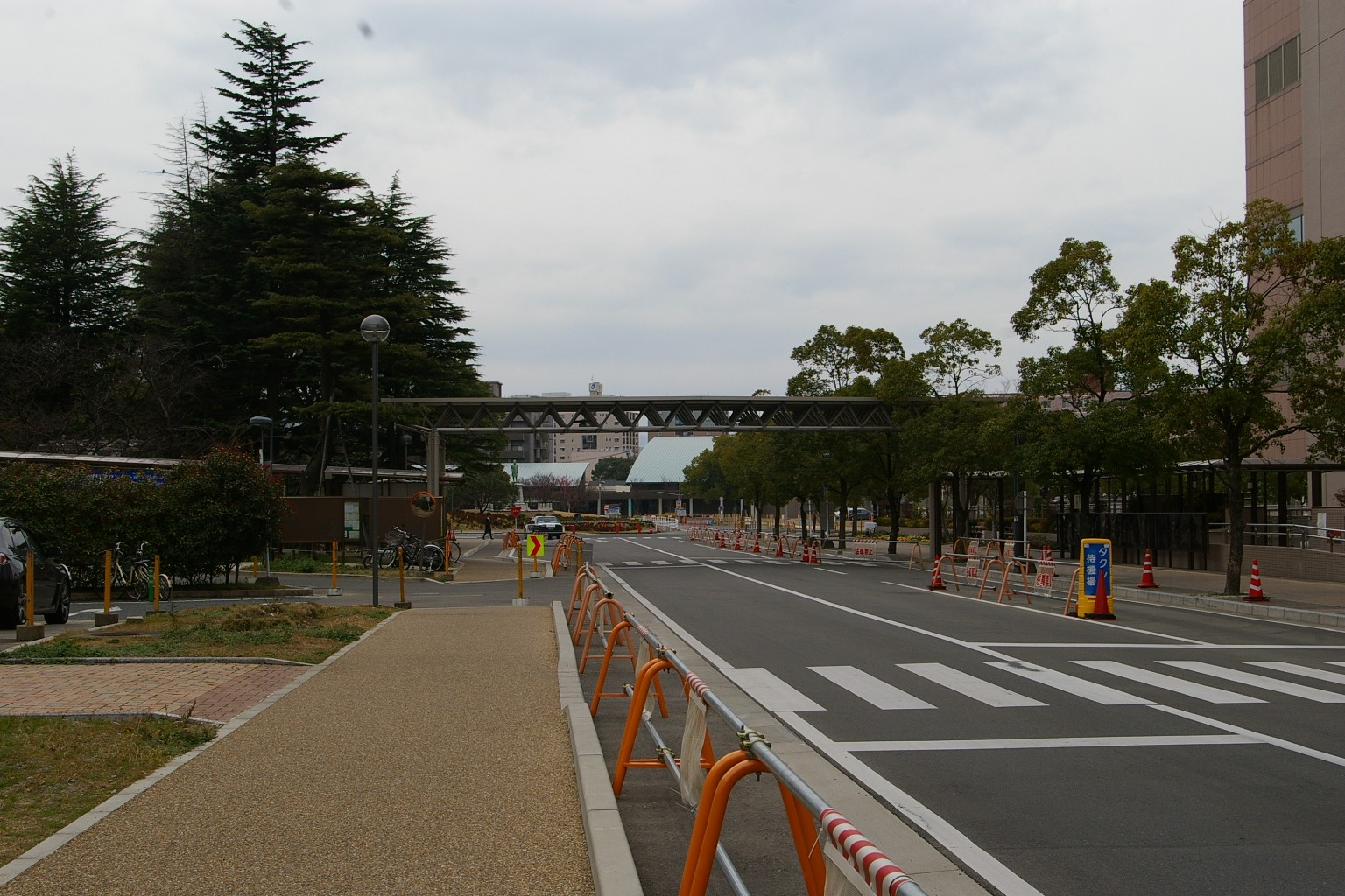 It located in Kyushu University.